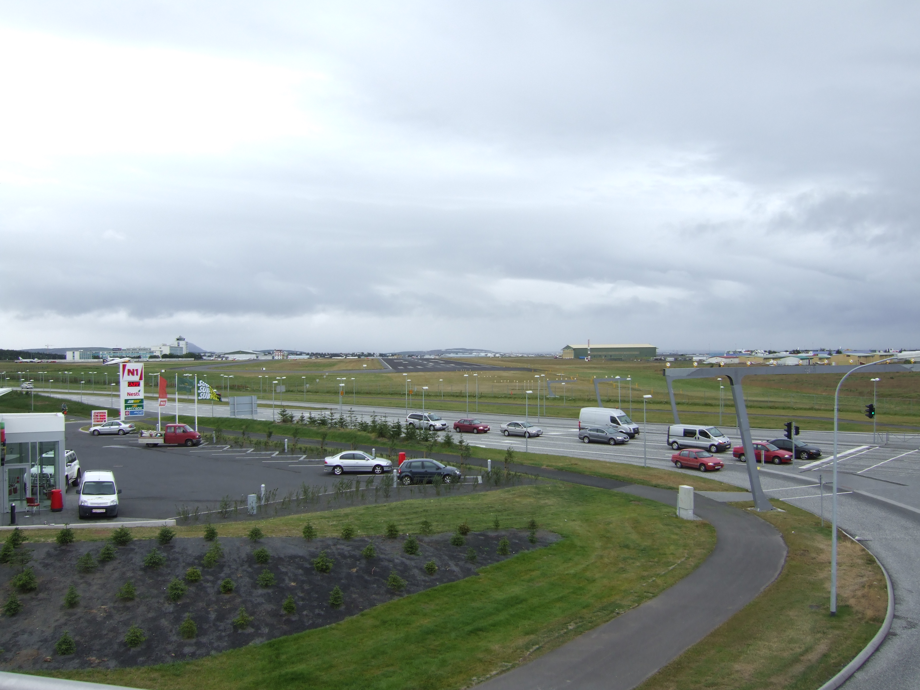 A part of Reykjavík Airport and its surroundings / Une vue sur l'aéroport de Reykjavik et ses environs